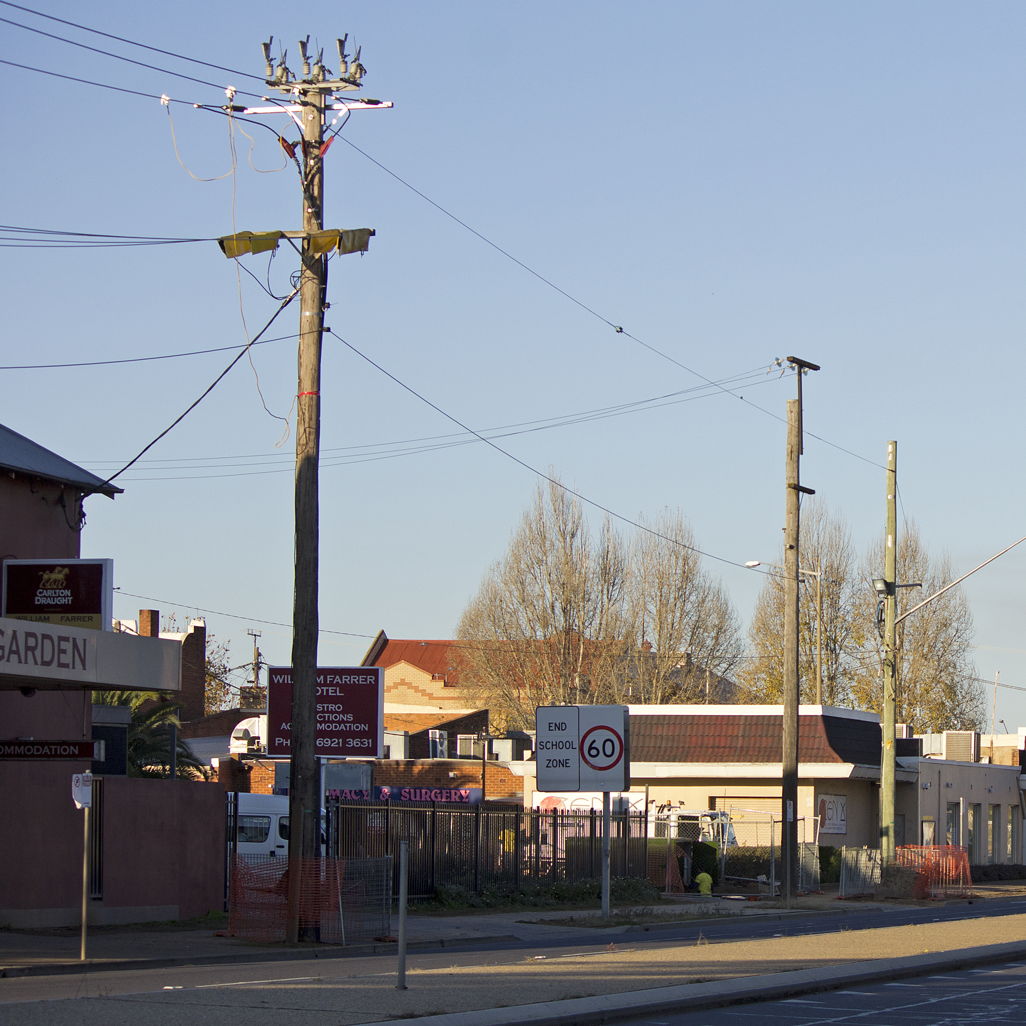 Undergrounding of overhead power lines along Edward Street and Tongaboo Lane in Wagga Wagga.